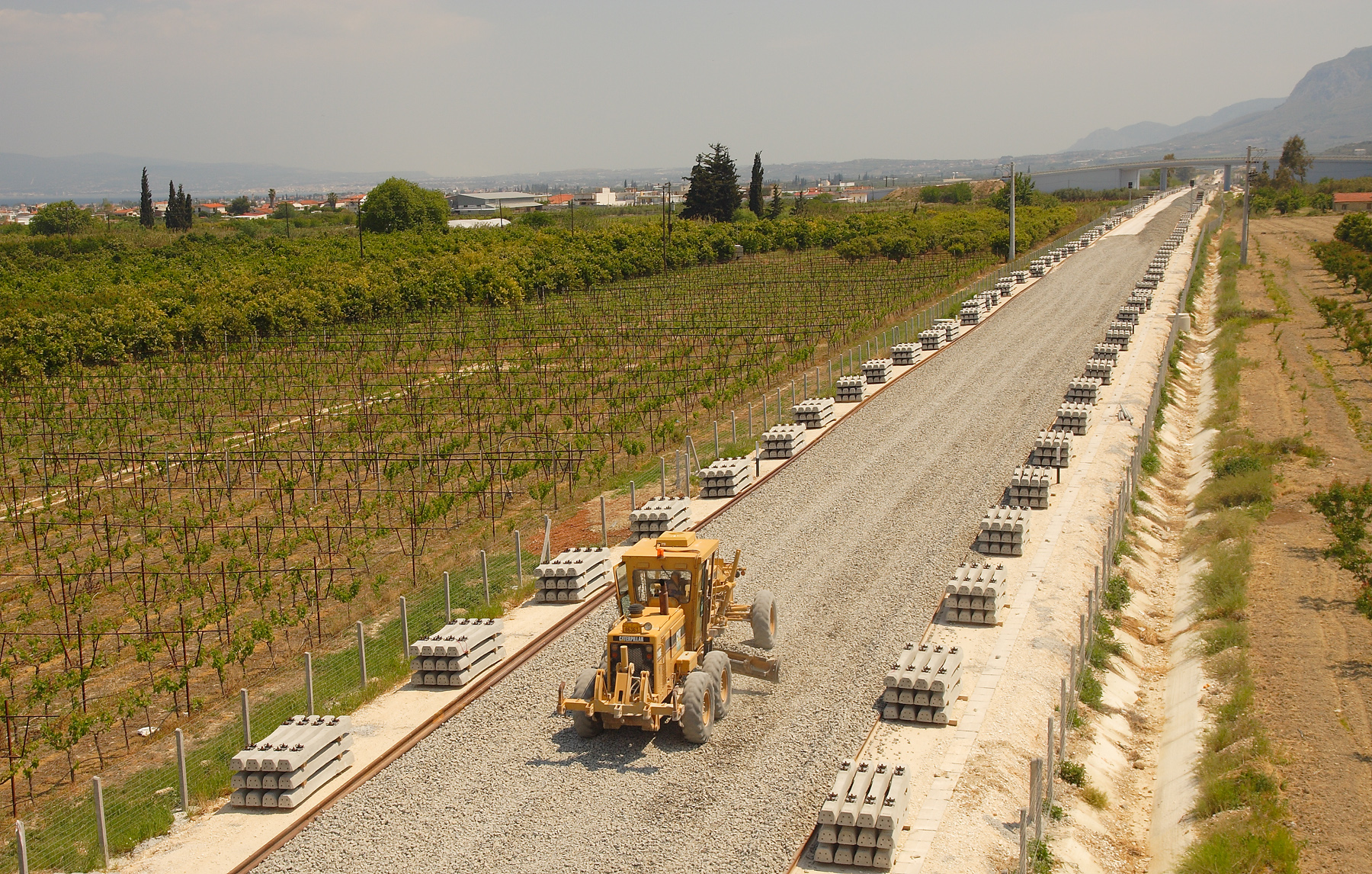 Bahnstrecke (Athen)-Korinth-Patras, 2007 am Golf von Korinth, in der Ebene der Präfektur Konrinthia. Die fruchtbare Landwirtschaftsfläche steht unter massivem Siedlungsdruck. Die Verkehrsinfrastruktur wird gerade erst aufgebaut. Railway line (Athens)-Korinthos-Patras, 2007, Konrinthiakos Gulf. Coastal plane of Prefecture Korinthia. Urban settlements infiltrate the farming areas rapidly. Trafficstructure (roads and public transport) lacks far behind.